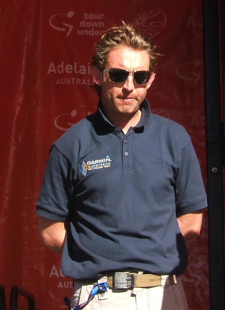 Named cyclist at the en:2009 Tour Down Under team presentation